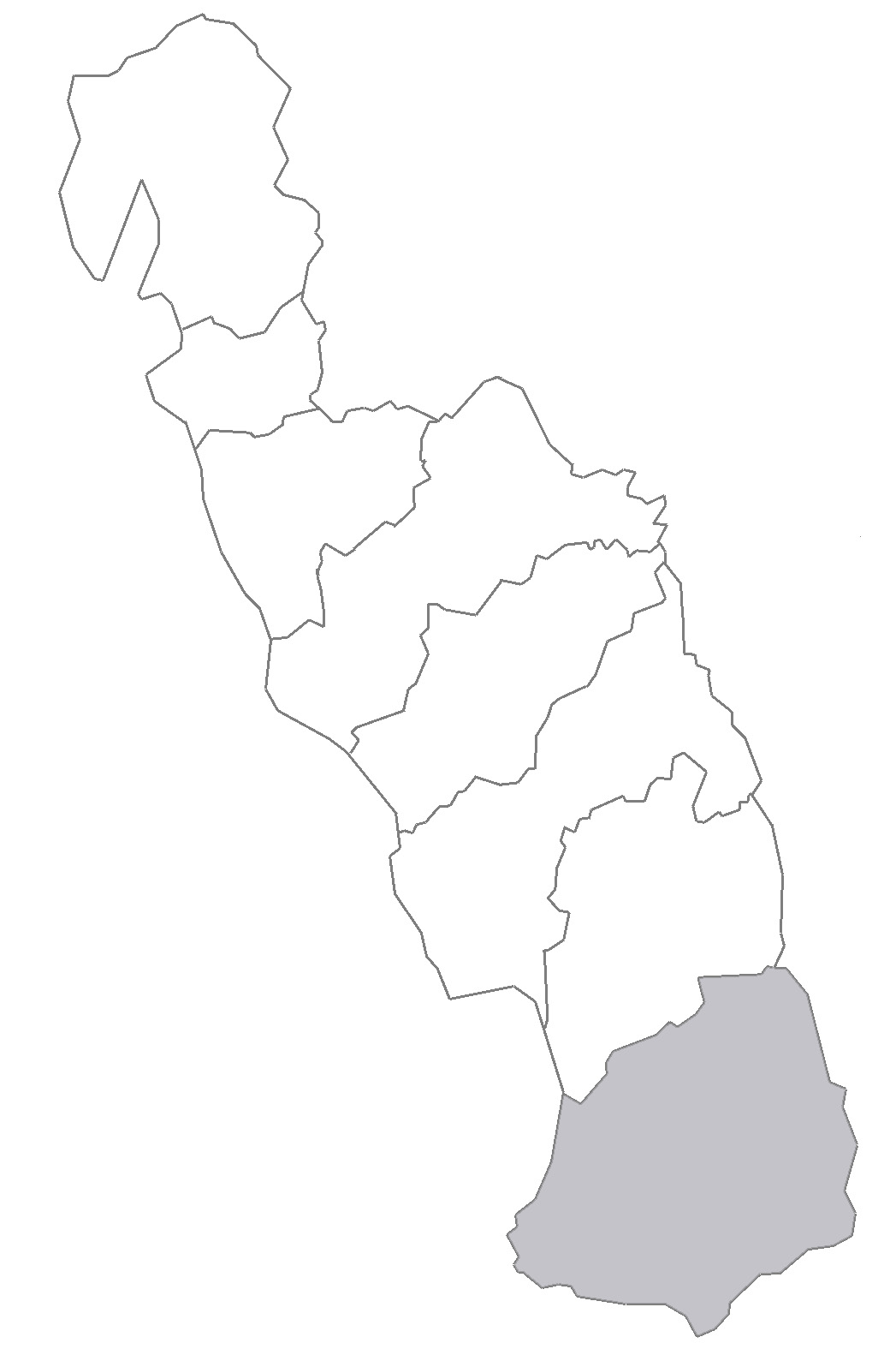 Map describing the location of Hök Hundred in the province of Halland, Sweden.